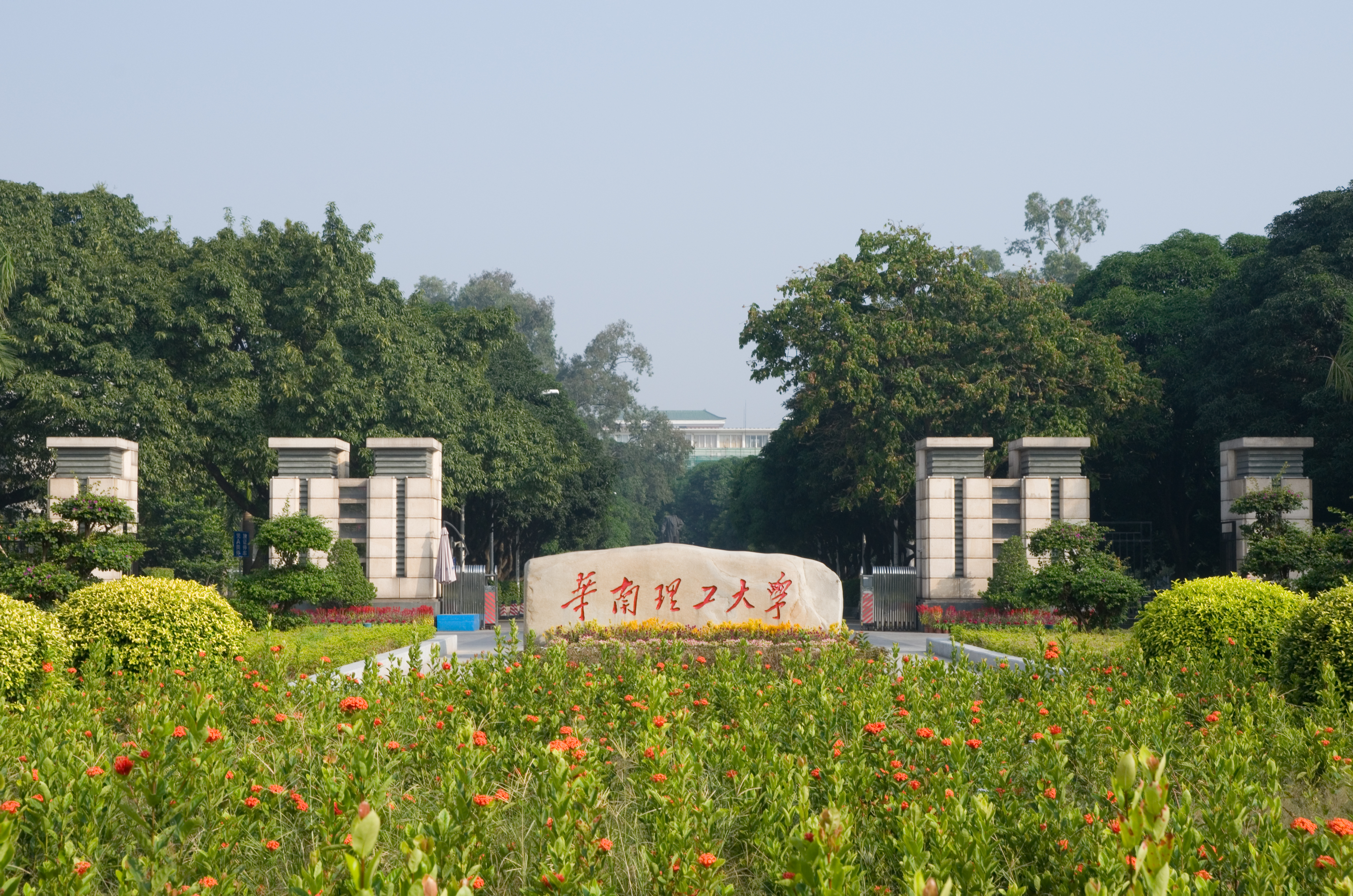 South China University of Technology main entrance to the North Campus